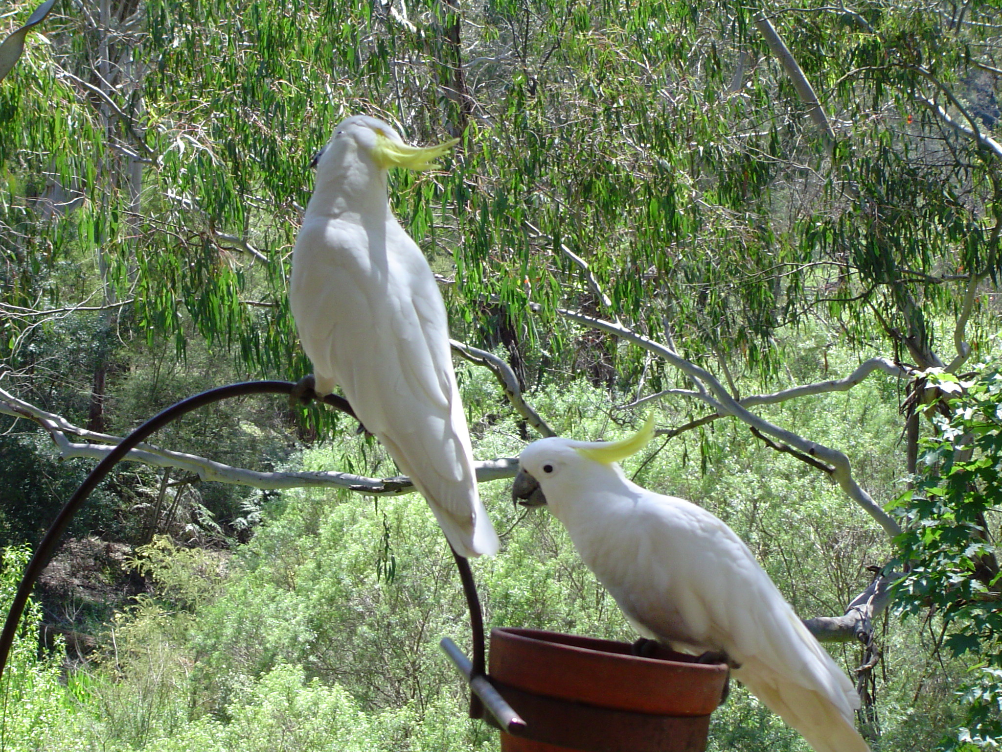 Sulphur-crested Cockatoos at the Stonehouse Cafe/Gallery in Warrandyte, Melbourne, Australia. Image taken by me in 2003.